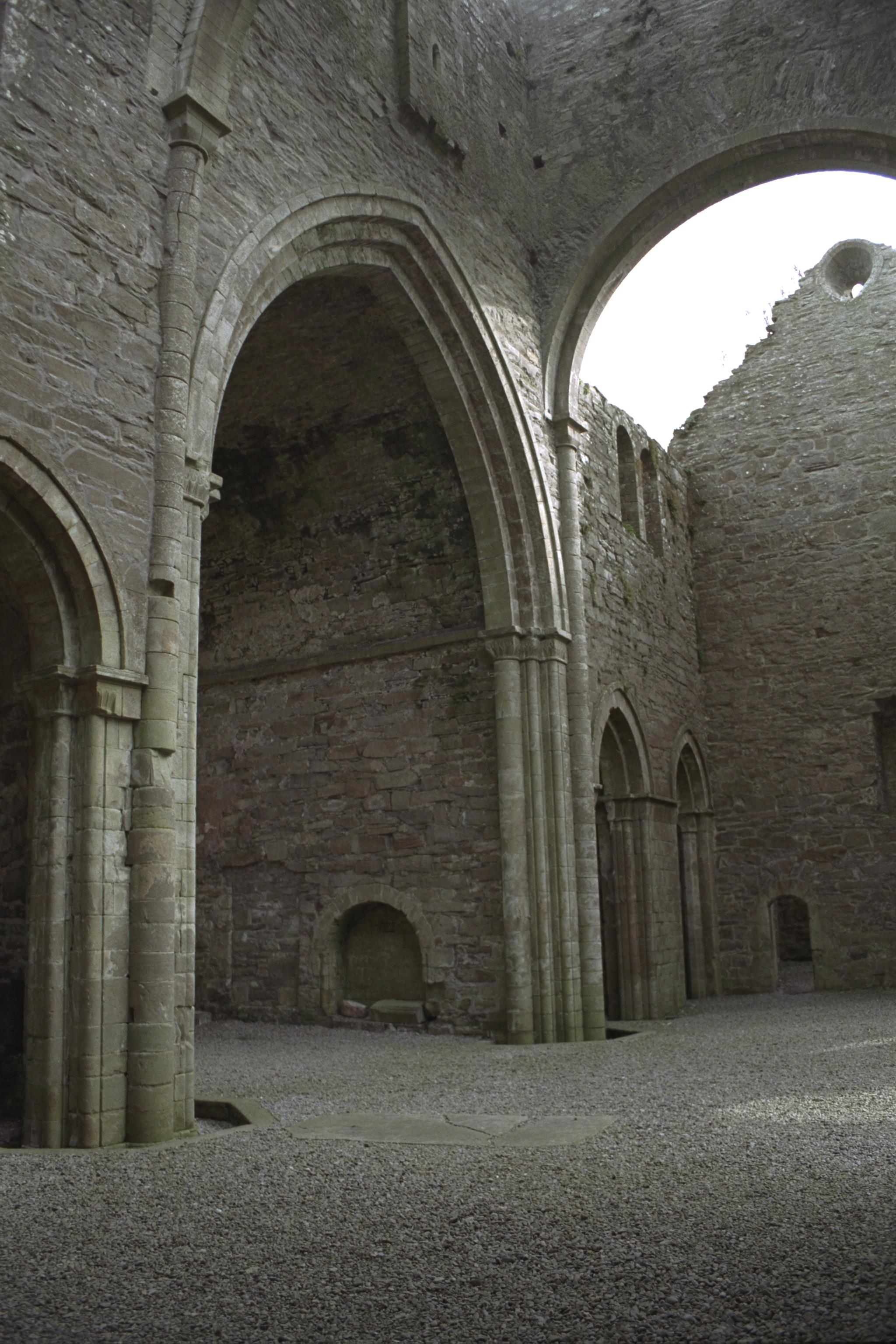 Boyle Abbey, County Roscommon, Ireland Crossing and South transept as seen from the North transept